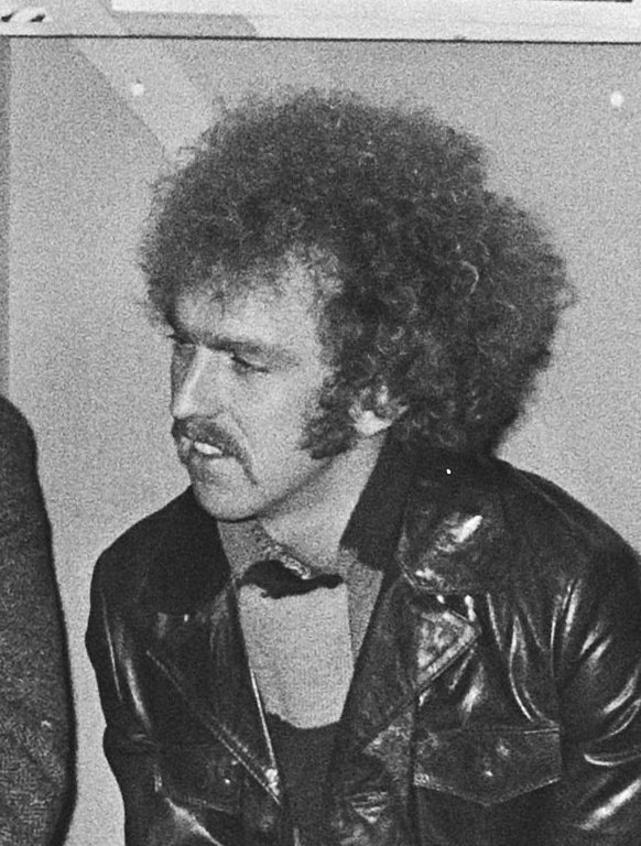 Flying Burrito Bros giving a press conference in the Birdsclub, Amsterdam (NL), 23 Nov. 1970. From left to right: Sneaky Pete Kleinow, Rick Roberts, Chris Hillman, Michael Clarke, Bernie Leadon